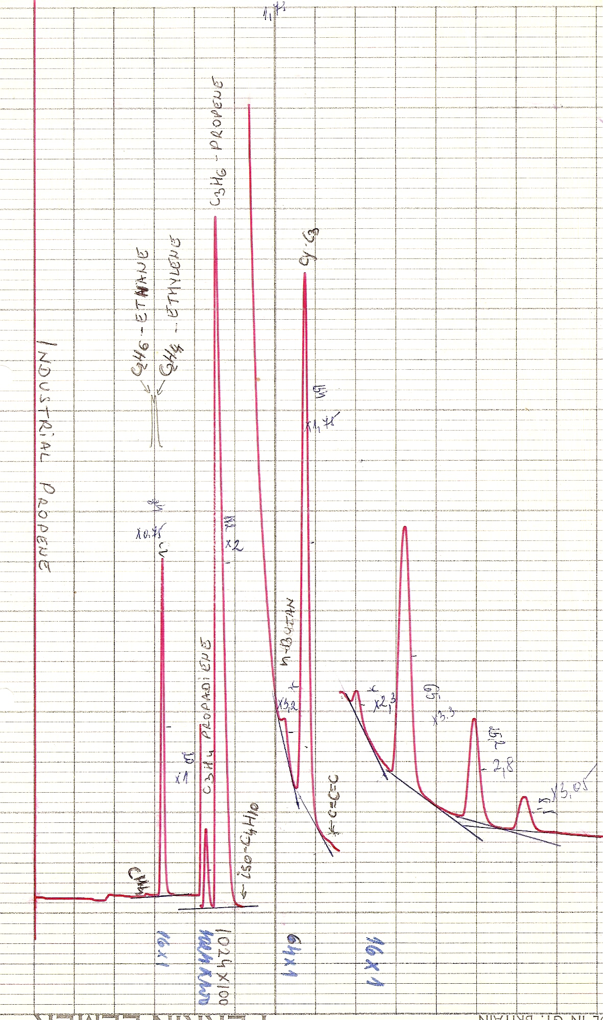 GC_Hromatogram of Industrial Propene - Work sheet